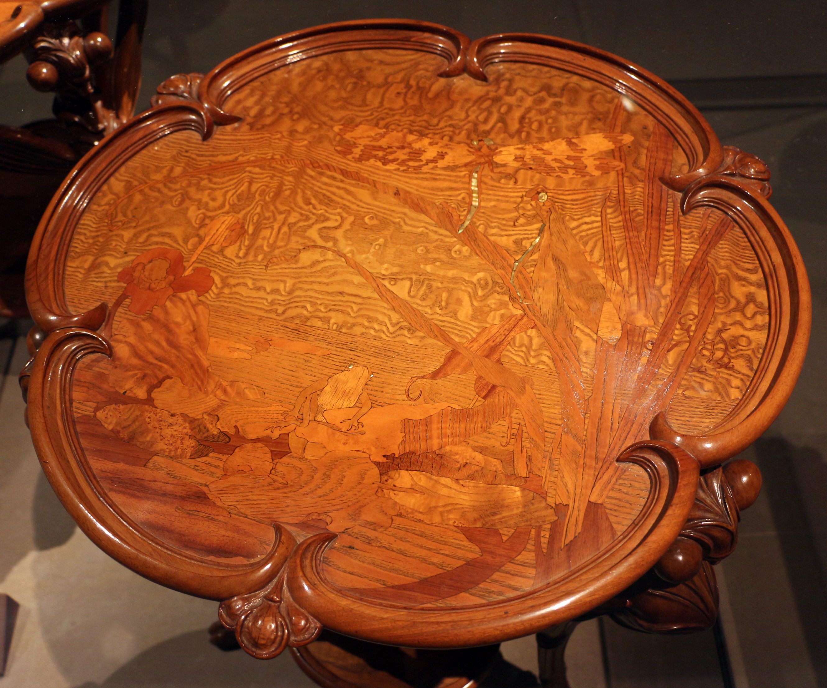 Fin de Siècle Museum